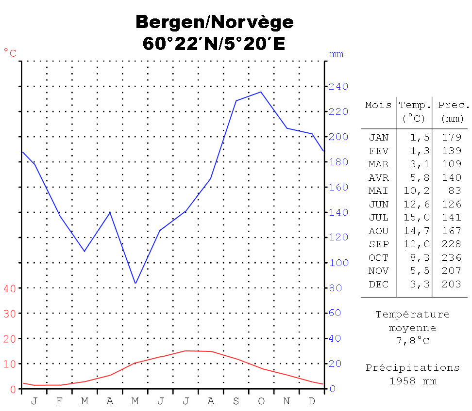 French version of the climat diagramme for Bergen, Norway. Own work.